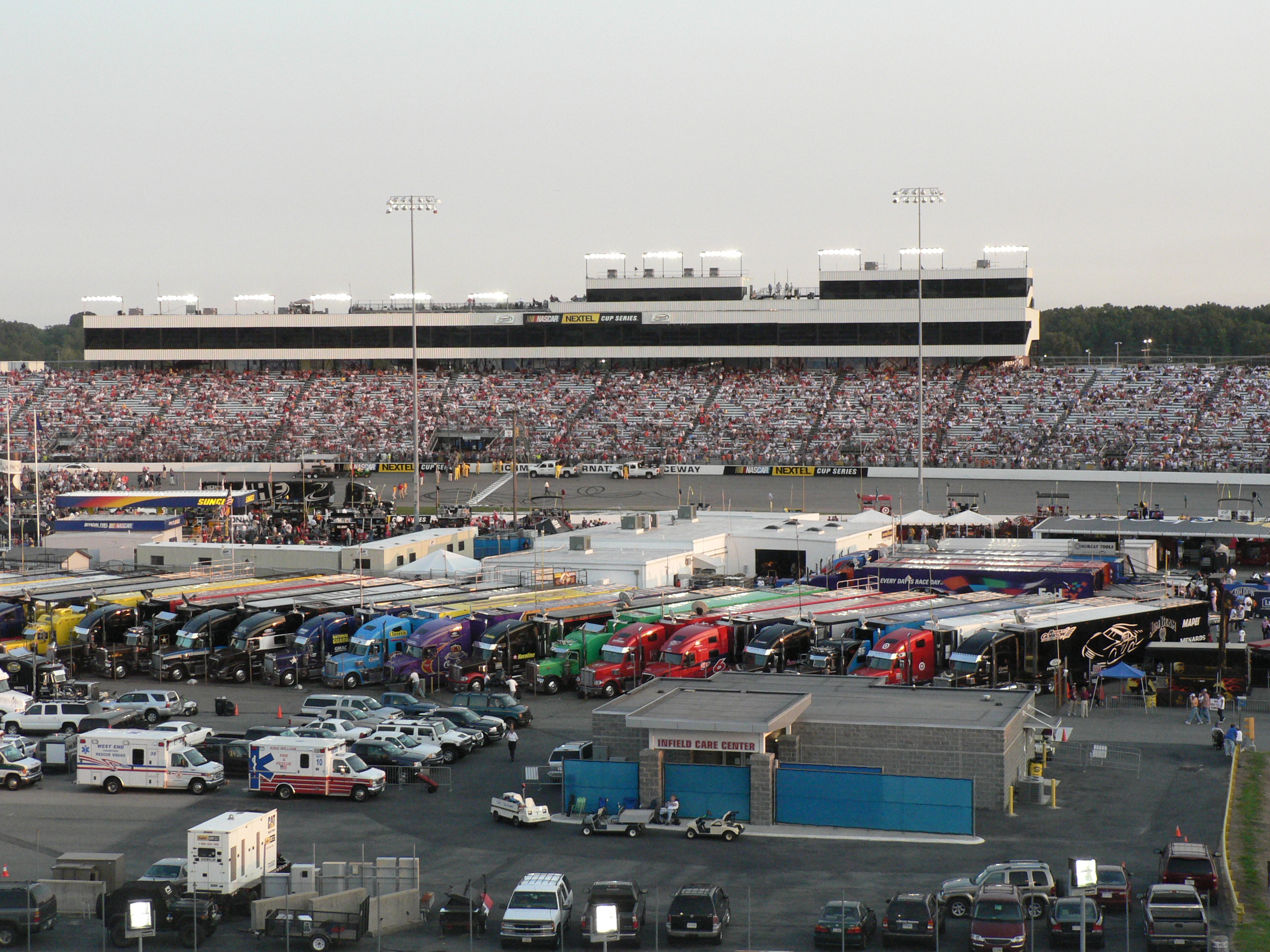 Richmond Speedway is a 3/4 mile track. This is the closest I could get to a landscape shot. I love the small tracks. I've been to the 2 1/2 mile Pocono but the small tracks are so much better. For 3/4 of a mile they can fit a lot of trucks in the infield. This was also something like the 32nd consecutive sellout. Outside the track is a neighborhood. People were letting fans park on their lawns for $20 a car. Some were even letting them use their bathroom. When it's not being used as a racetrack the city uses the parking lot for events like Italian Days and stuff like that.